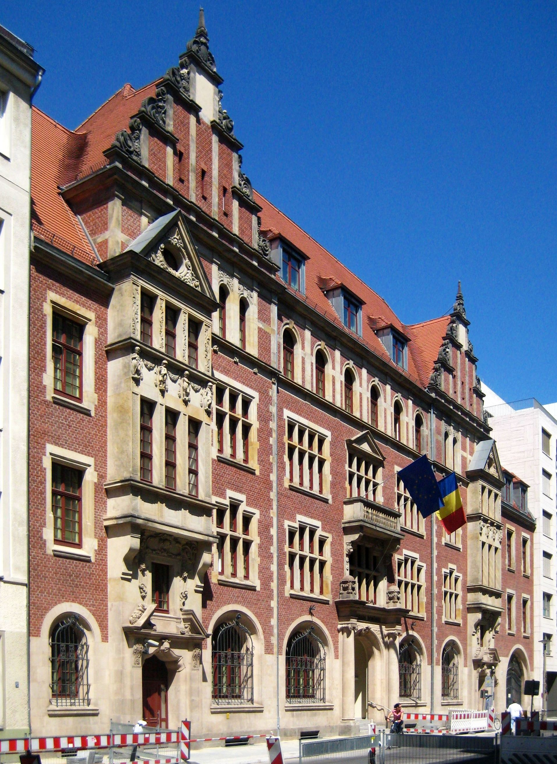 Romanian Embassy in Germany at Dorotheenstraße 62/66 in Berlin-Mitte, built 1905-1906 as Berlin Post Office NW 7 in the typically representative style of postal buildings in the German Empire. The architect is not known. The building is landmarked.